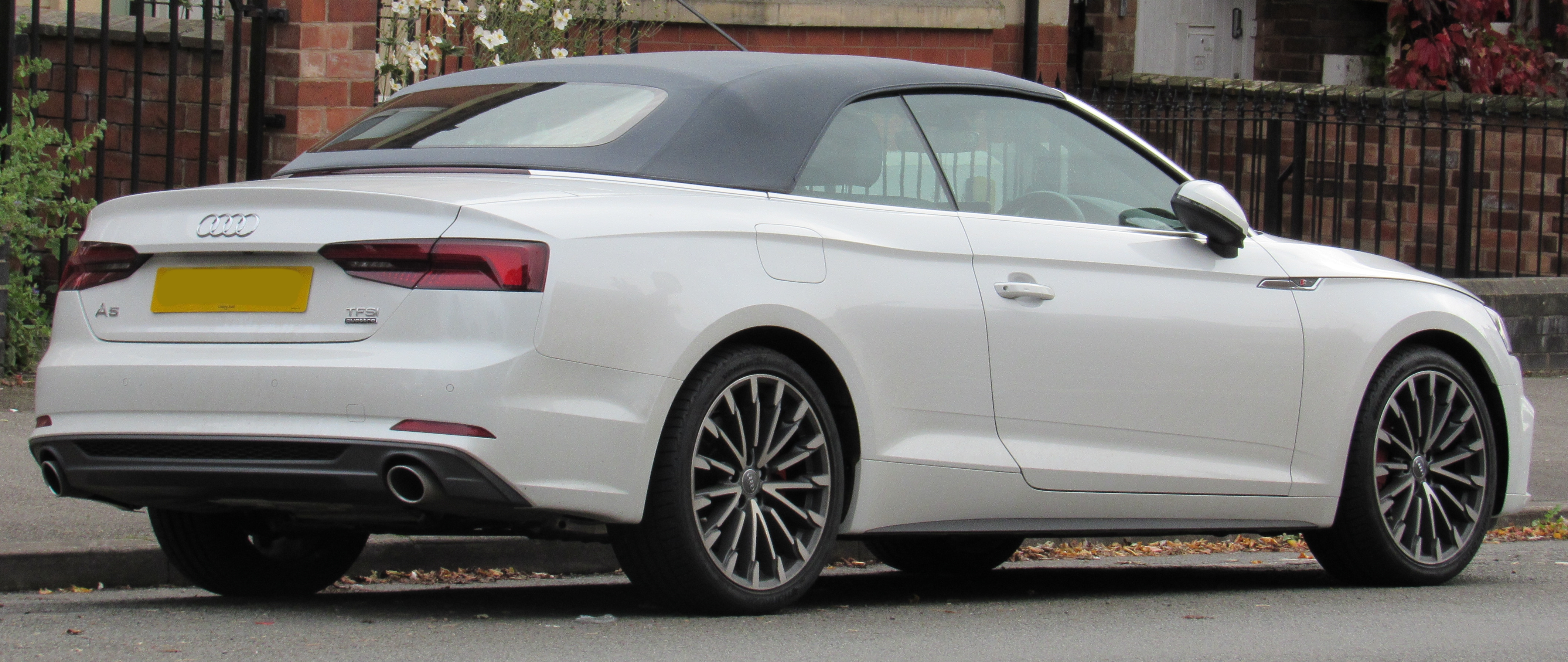 2017 Audi A5 S Line Quattro 2.0 Rear Taken in Leamington Spa